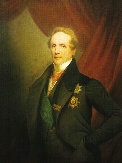 Portrait of Frederick Augustus II of Saxony (1797-1854)